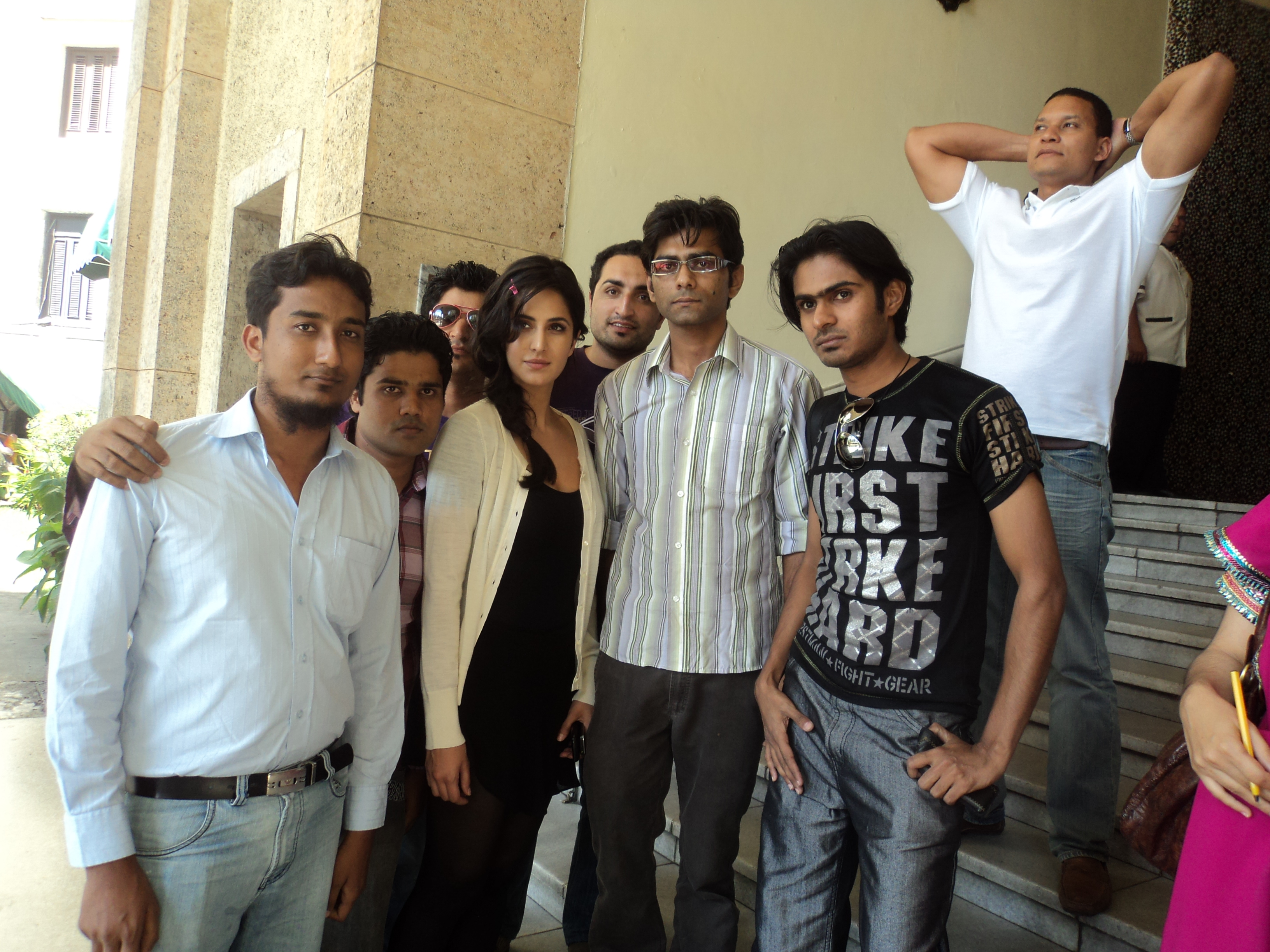 Katrina kaif in cuba